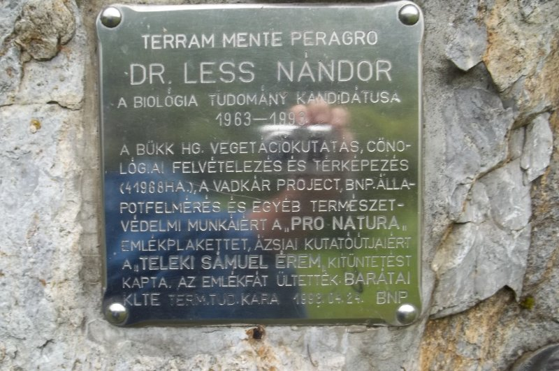 Commemorative plaque of Nándor Less on the Nándor Less memorial